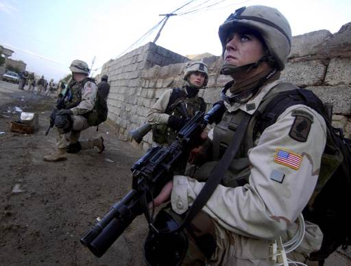 Soldiers with the 173rd Airborne Brigade, 4th Infantry Division, pull security on the streets of Al Hawijah, Iraq, during Operation Bayonet Lightning, December 2, 2003. Operation Bayonet Lightning is a joint operation, held to locate and question persons of interest in the city.